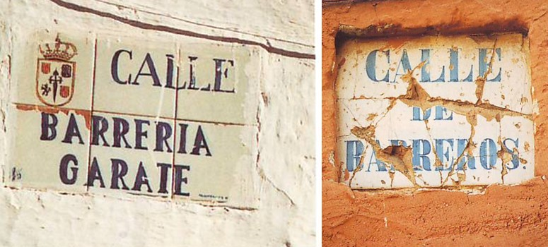 Tiles of Villanueva de los Infantes and Daimiel. Ciudad Real. Spain.